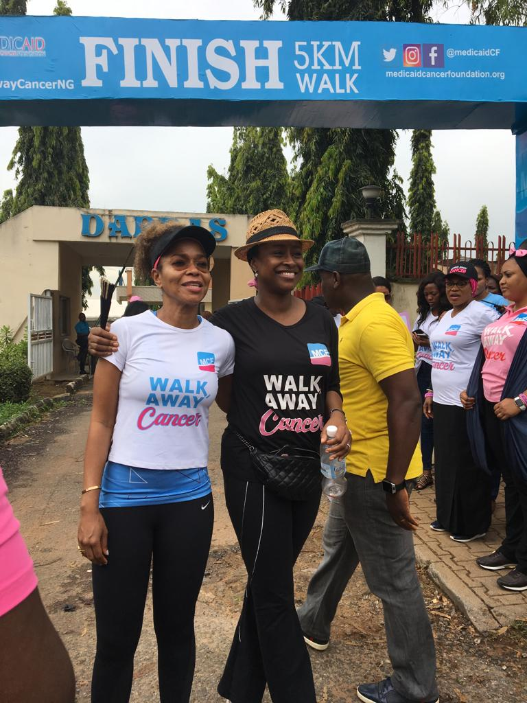 Walk Away Cancer 2018.